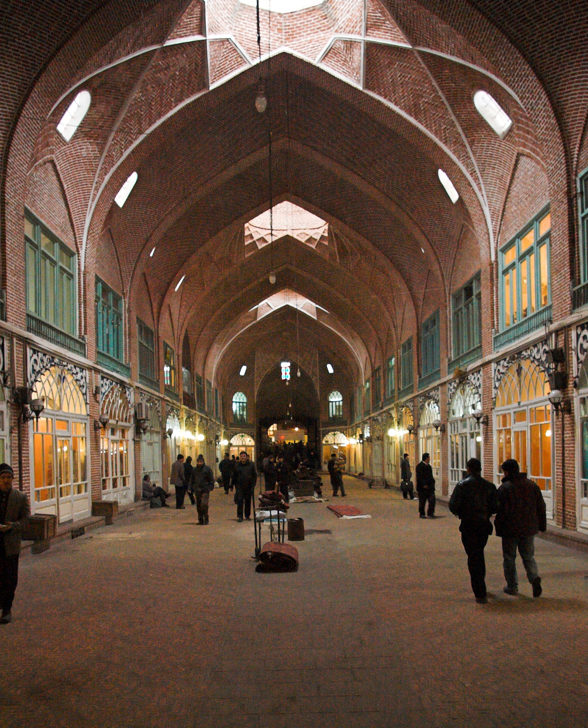 One of the halls in Tabriz's Bazaar